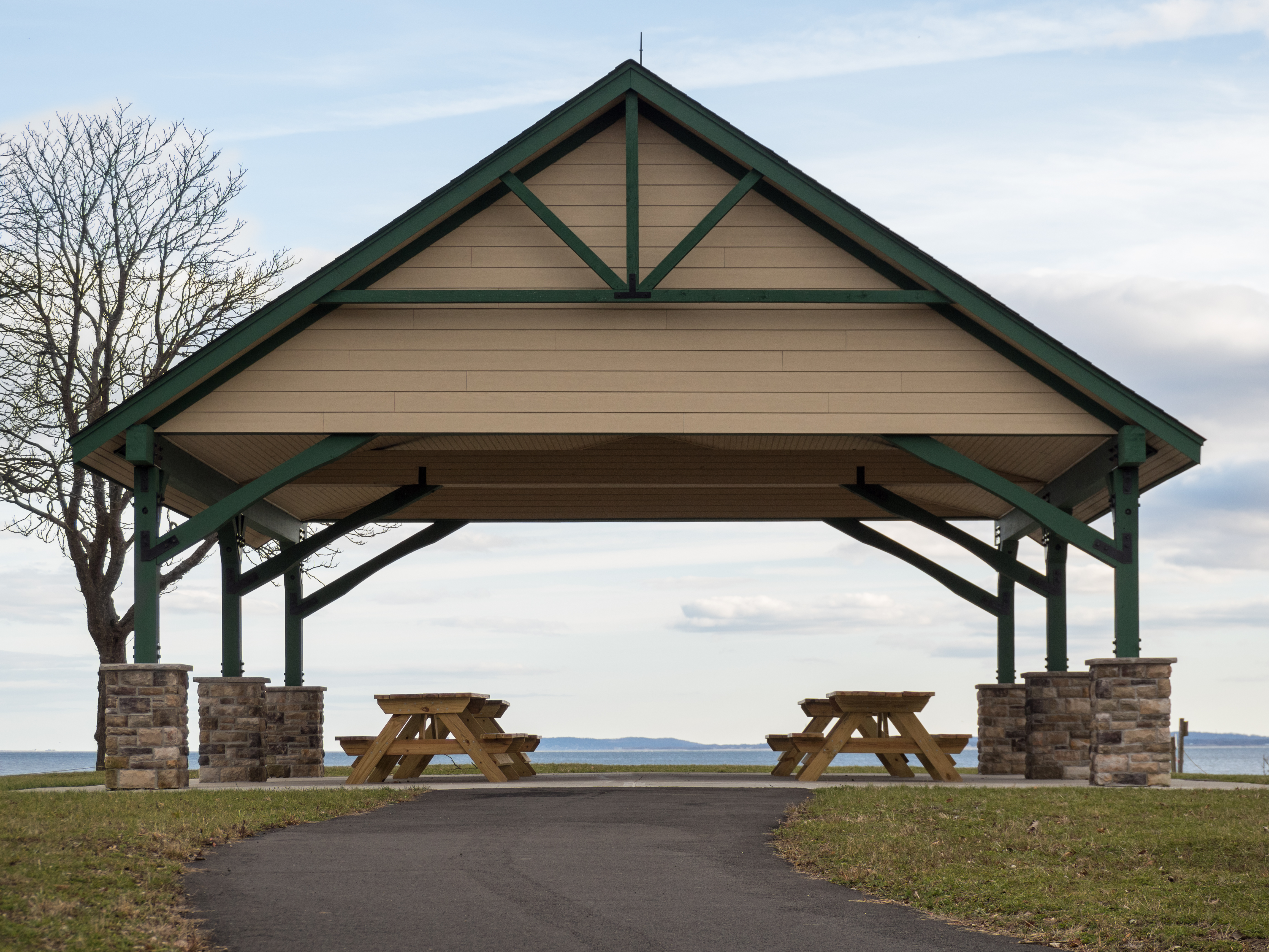 Mount Loretto's Pavilion, Staten Island